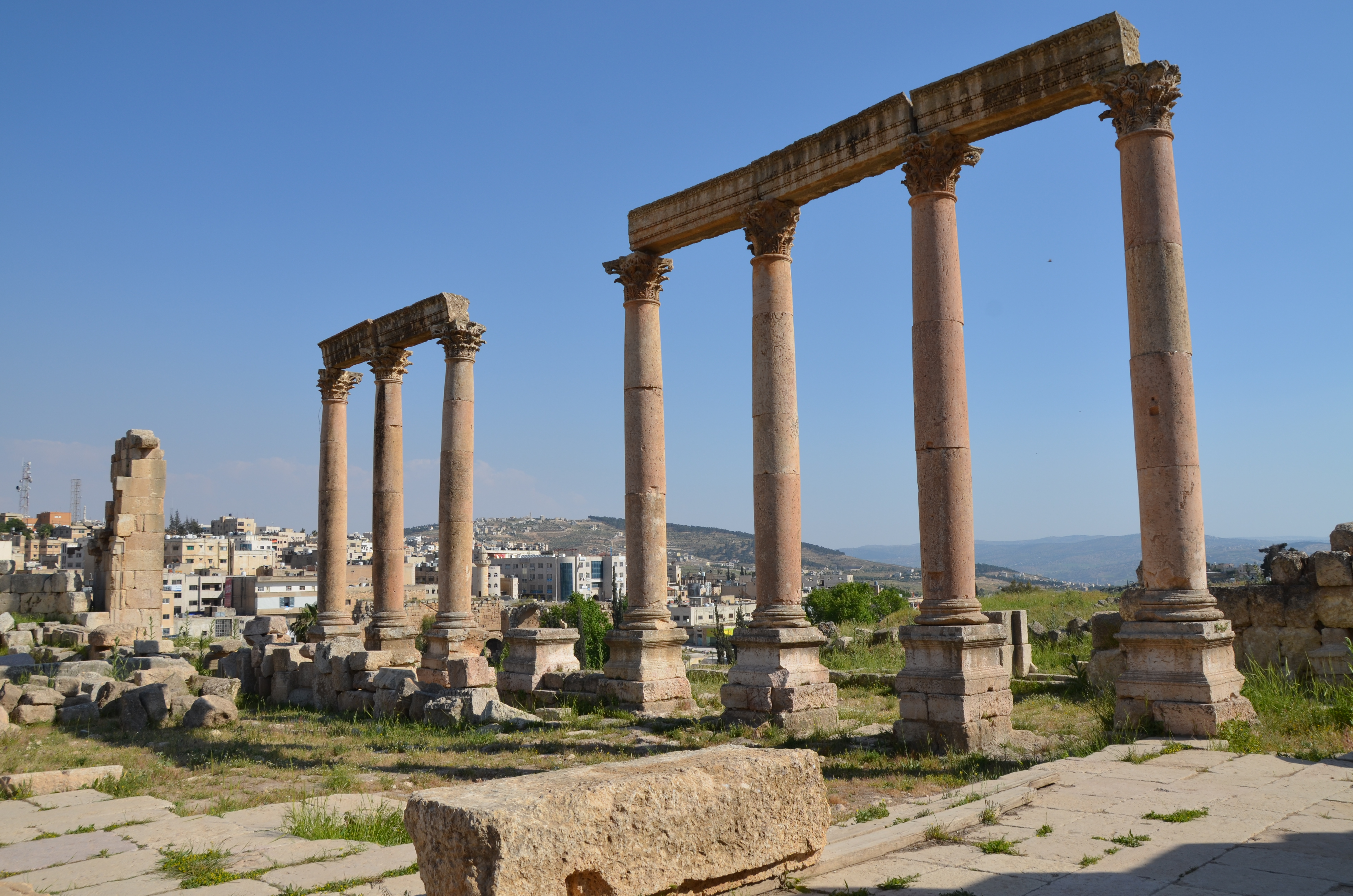 The Propylaeum Church, built in the 6th century AD to the east of the Cardo near the propylaea of the Temple of Artemis, Gerasa, Jordan